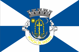 Flag of Póvoa de Varzim municipality (Portugal)